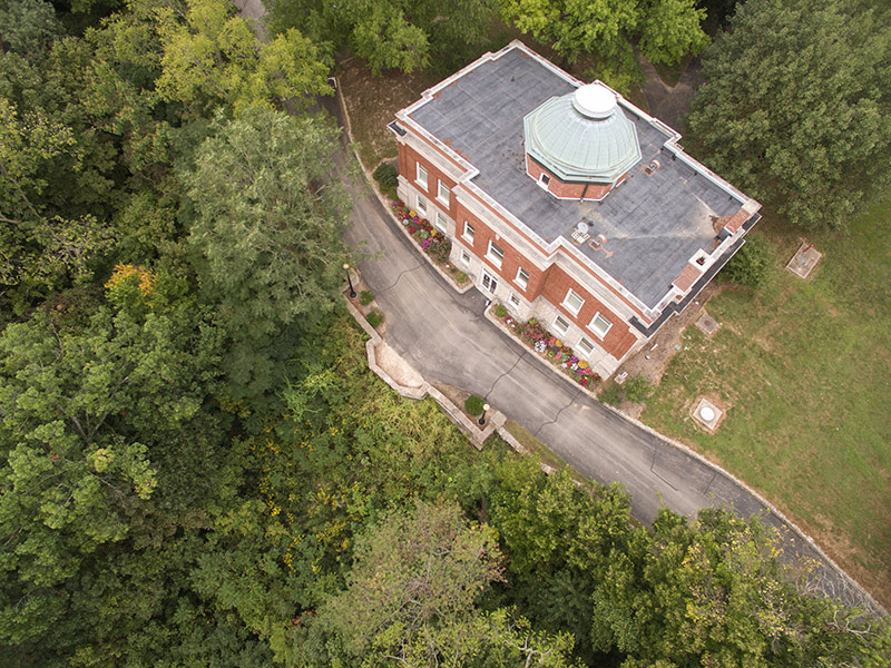 Aerial photograph of Hendricks Hall on Hanover College's campus.